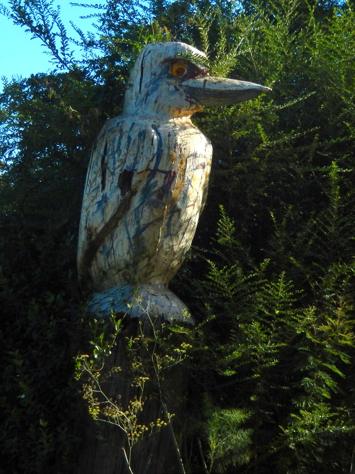 Kookaburra sculpture at Elands, NSW, Australia